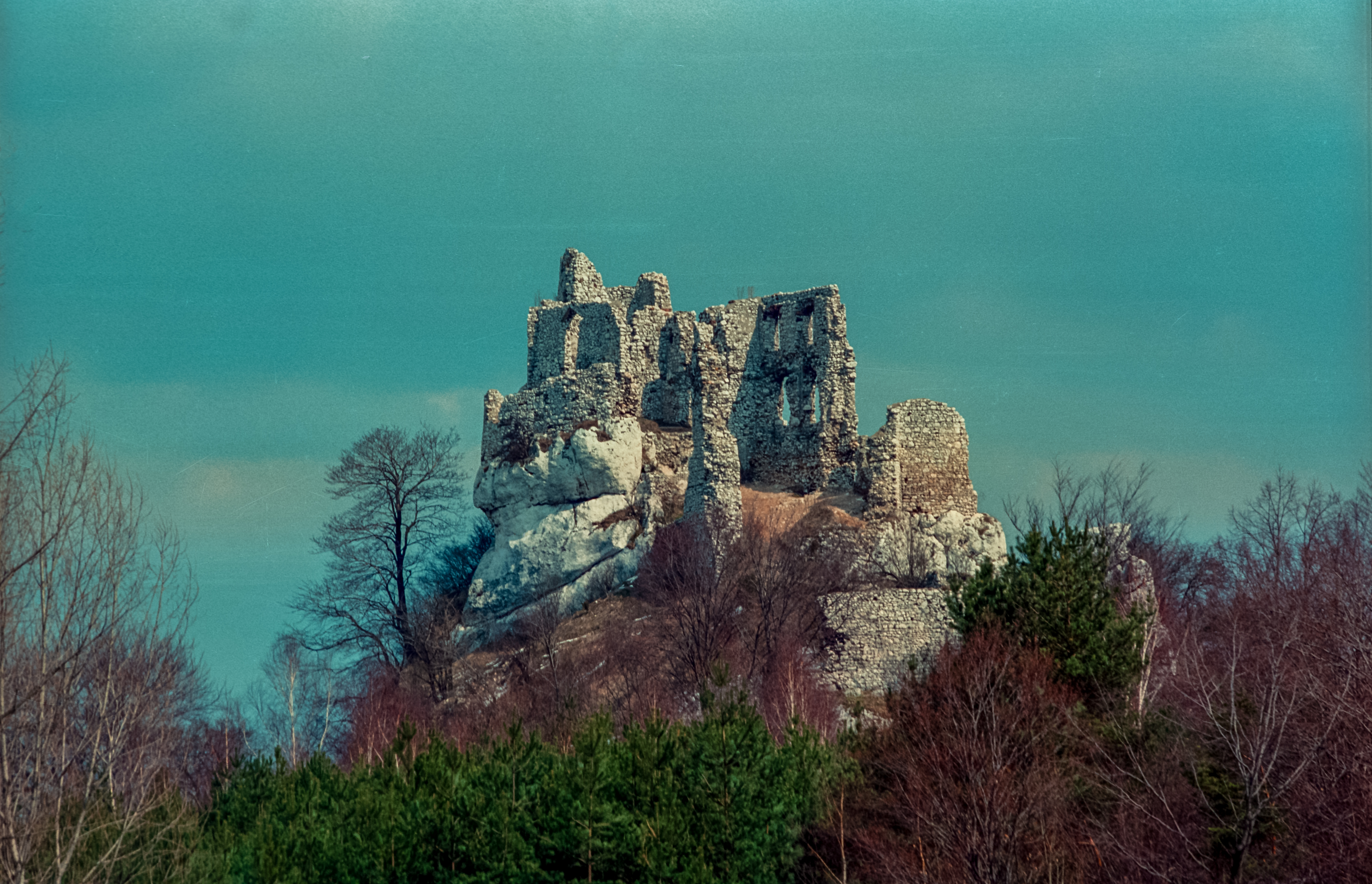 Poland, Jura, Bobolice Castle